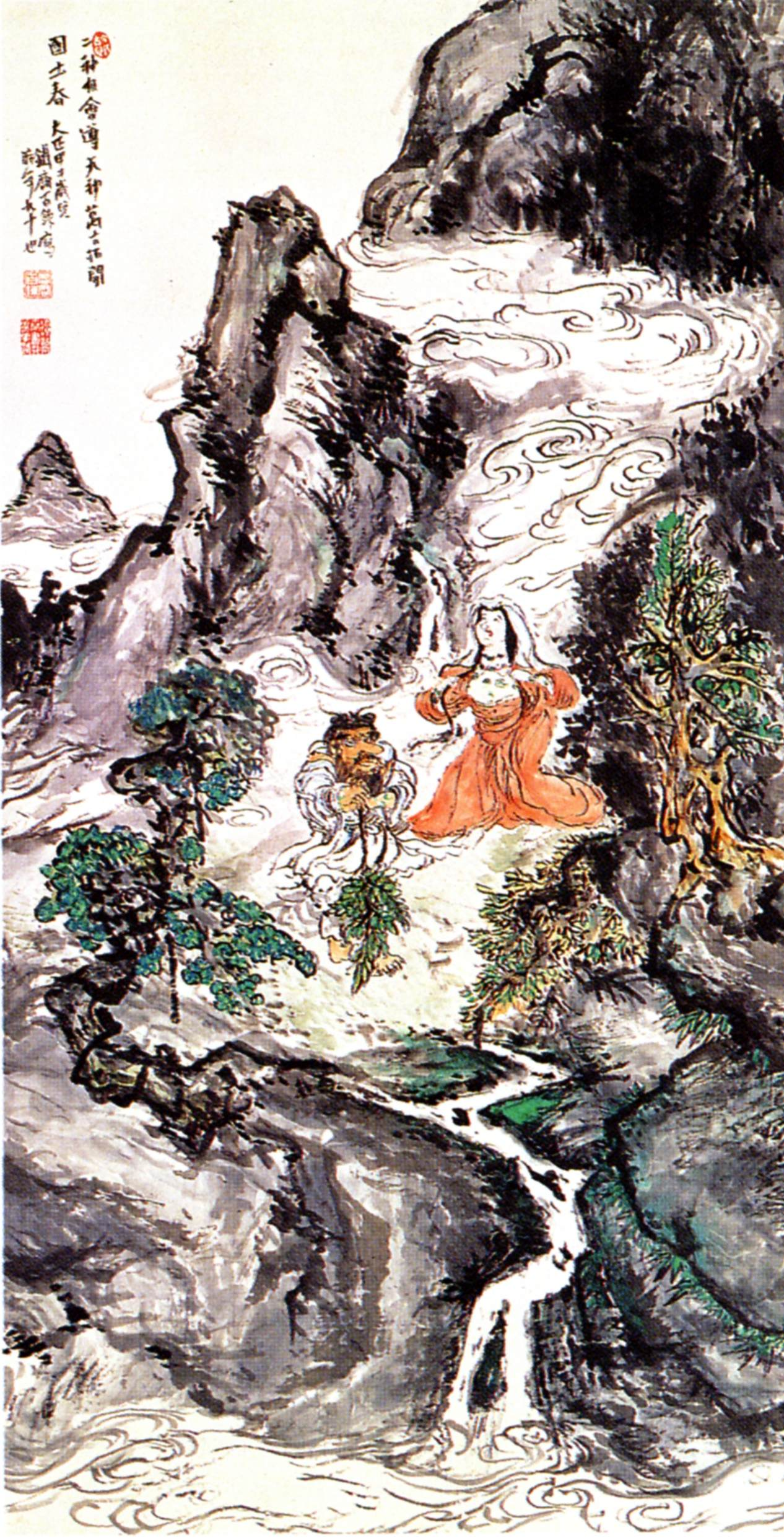 Two Divinities Dancing, by Tomioka Tessai